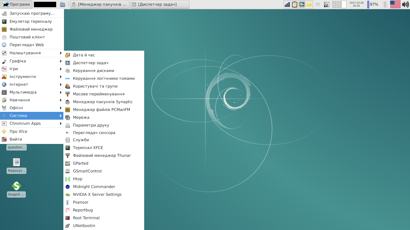 Ukrainan language XFCE desktop